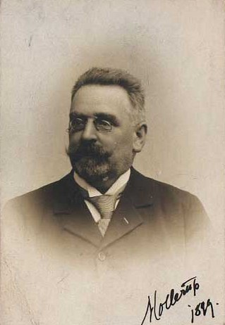 Danish historian, museum director, Arthur William Julius Mollerup (1846-1917)